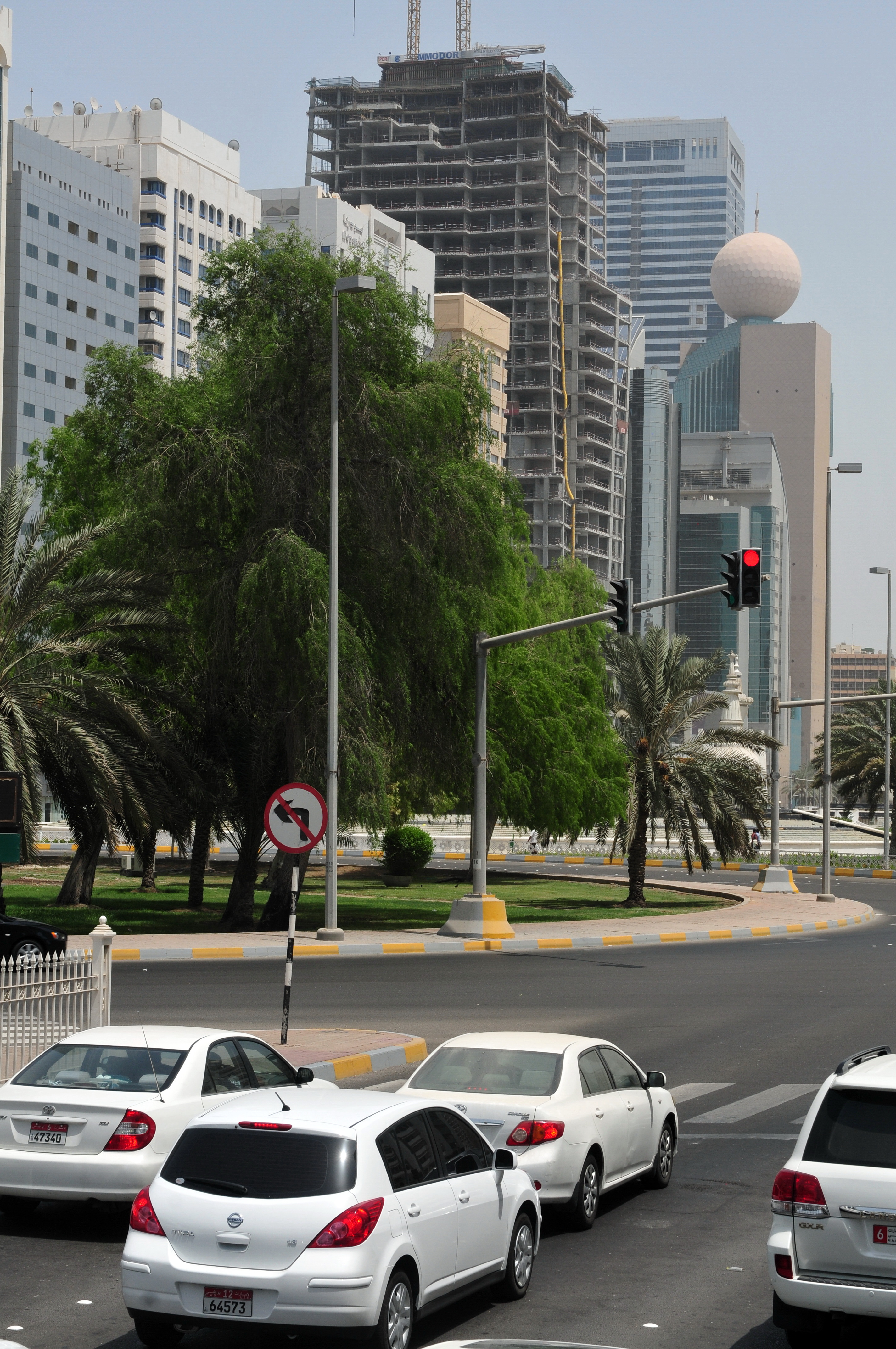 traffic scene in Abu Dhabi